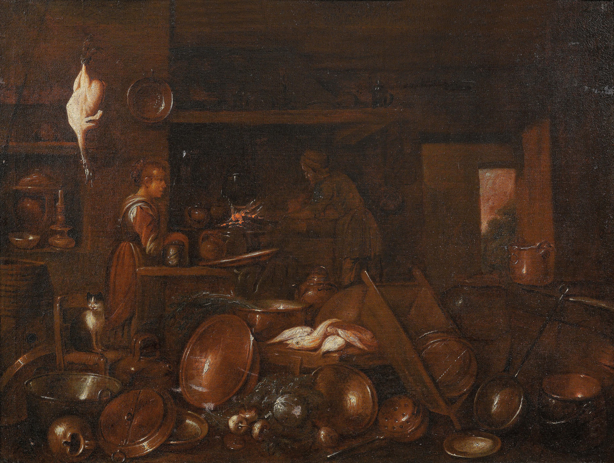 Gian Domenico Valentino (Valentini), a kitchen interior ca. 1670